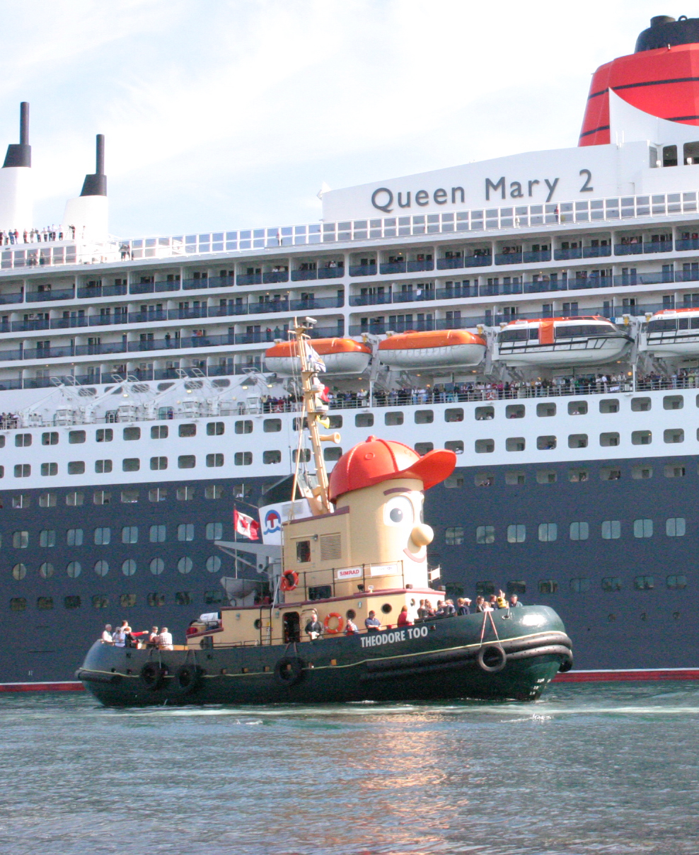 Boat "Theodore Too" sailing next to boat "Queen Mary 2" in the port of Halifax, Nova Scotia, Canada.